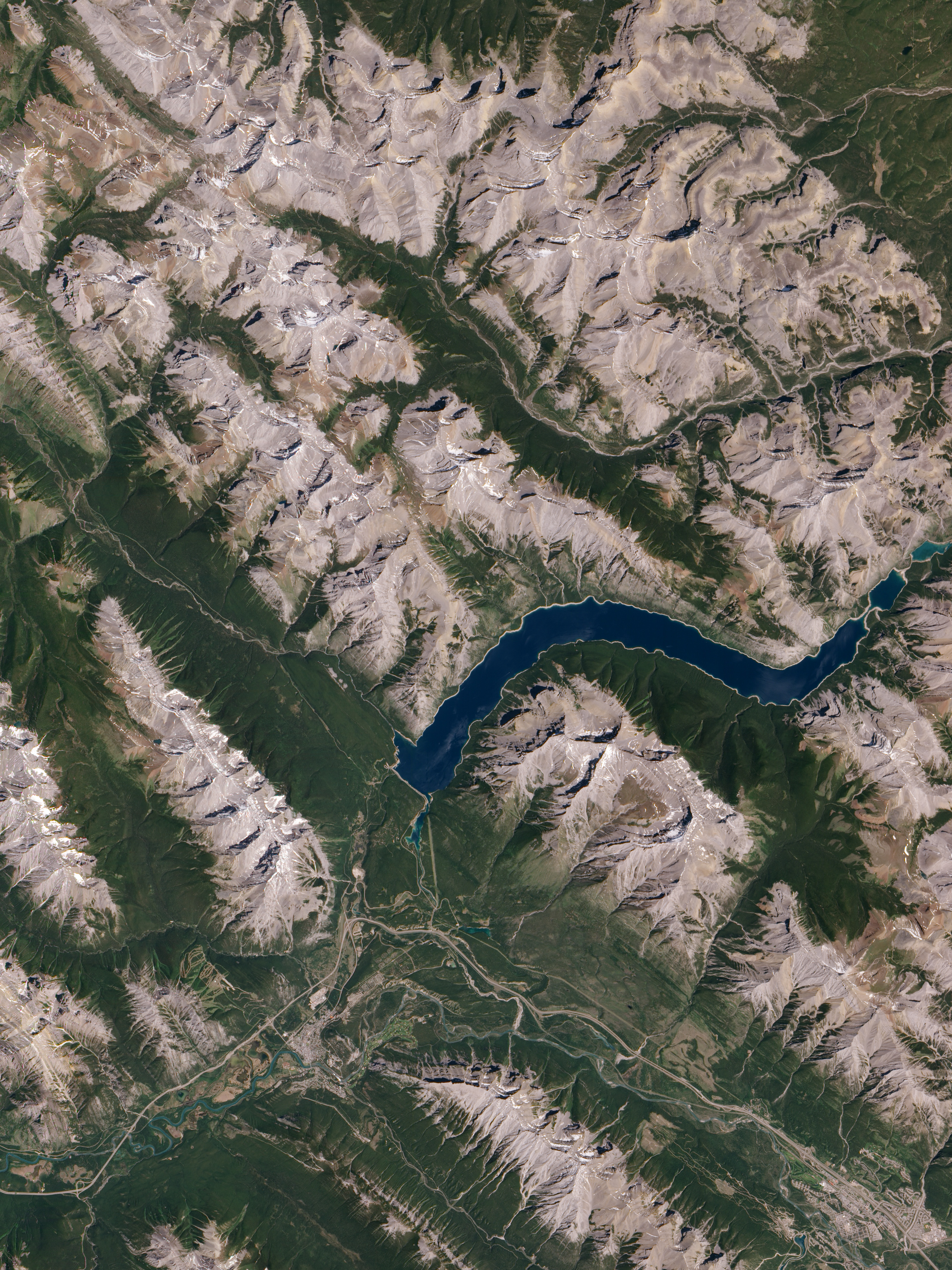 Sunlight from the south leaves north-facing slopes in shadow. Away from the lake’s sapphire-hued waters, the land appears as a combination of grey, brown, and green. Vegetation lines the slopes at lower elevations, but much of the land in this image lies above the tree-line. Treeless slopes rise above Lake Minnewanka in the north and the south. The off-white lake shores suggest that the lake was not completely full when ALI acquired this image. The Bow Valley has been shaped by a combination of rivers and glaciers. Sediments from the ancestral Bow River appear below glacial sediments. Beginning 25,000 years ago, the Bow Valley glacier ground through the valley. That glacier was later overtaken by a continental glacier. Besides the Bow Valley, occupied by Lake Minnewanka, evidence of glaciation in this image also appears to the south, in the amphitheatre-shaped cirque.